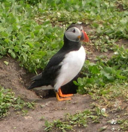 Puffin on Inner Farne Always wanted to see a puffin!